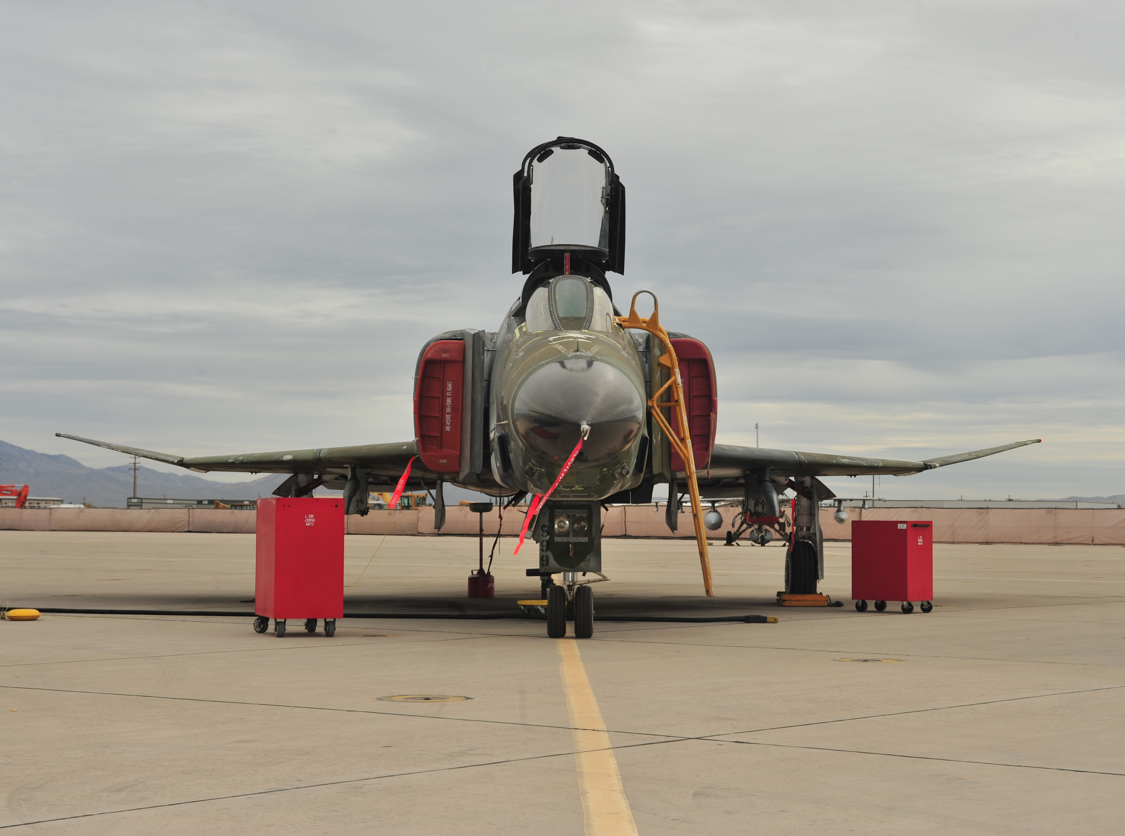 Front view of the last U.S. Air Force McDonnell F-4 Phantom (in this case RF-4C s/n 68-0609) converted into a full-scale aerial target (FSAT) by the 309th AMARG. 318 F-4s were converted to target drones. Starting in 2013, only General Dynamics F-16 Fighting Falcon aircraft will be converted to QF-16 FSATs.